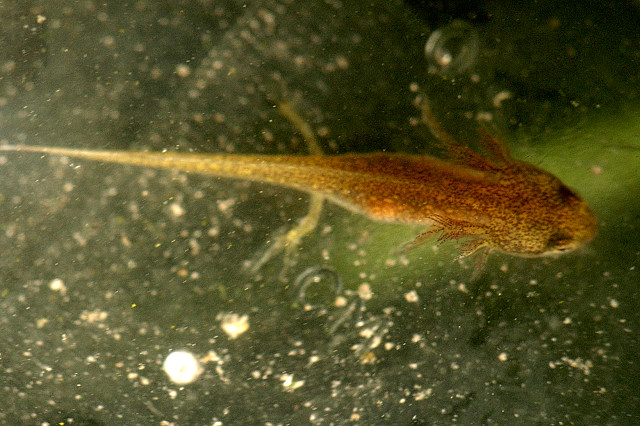 young Triturus alpestris from Commanster, Belgian High Ardennes (50°15'20``N,5°59'58``E)